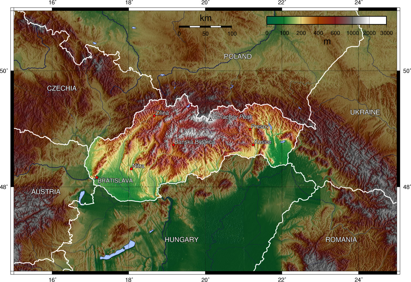 Topographic map of Slovakia (English description)